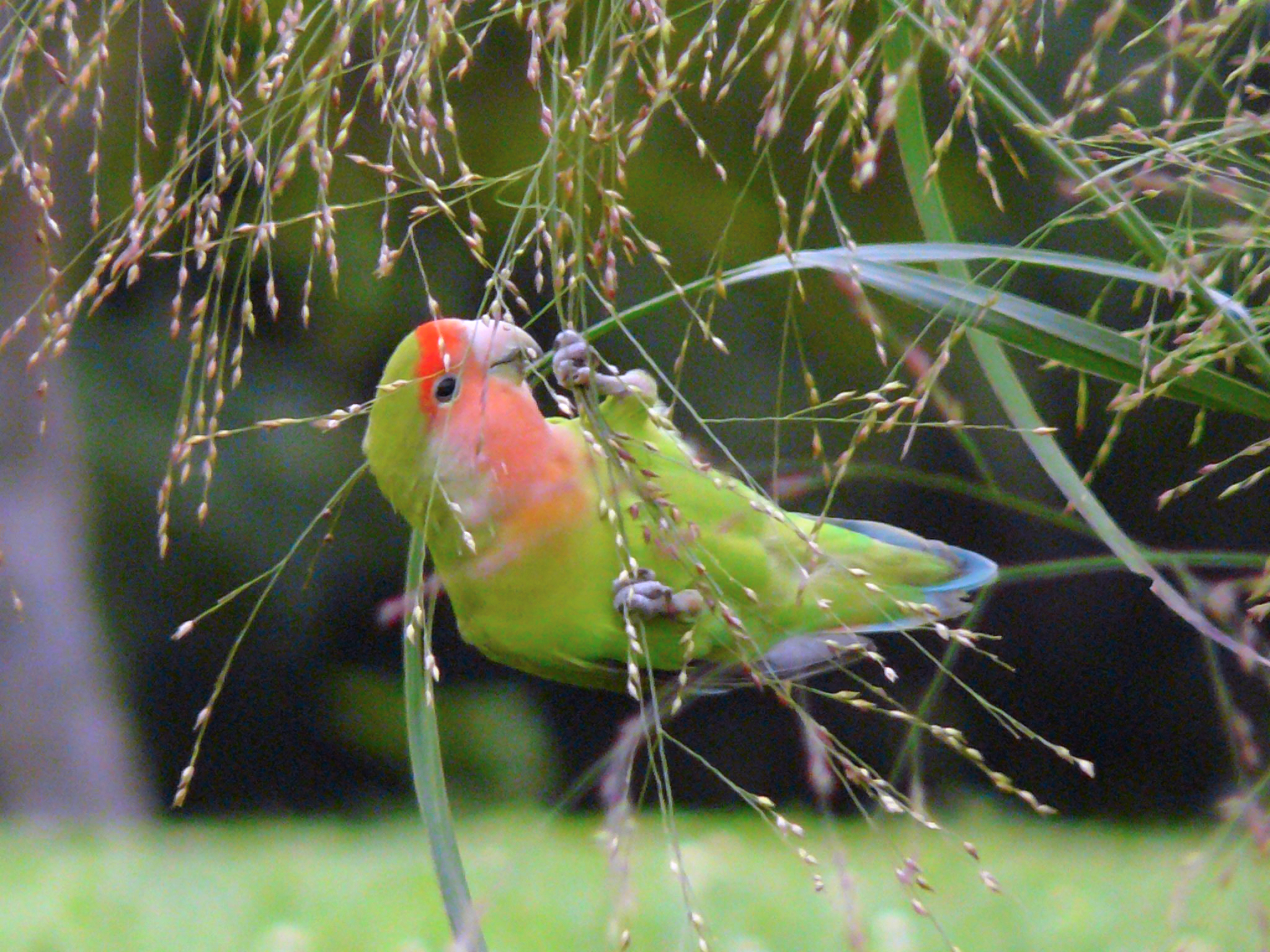 A feral Peach-faced Lovebird (Agapornis roseicollis) also known as the Rosy-faced Lovebird eating grass seeds in Chicago, Illinois, USA.